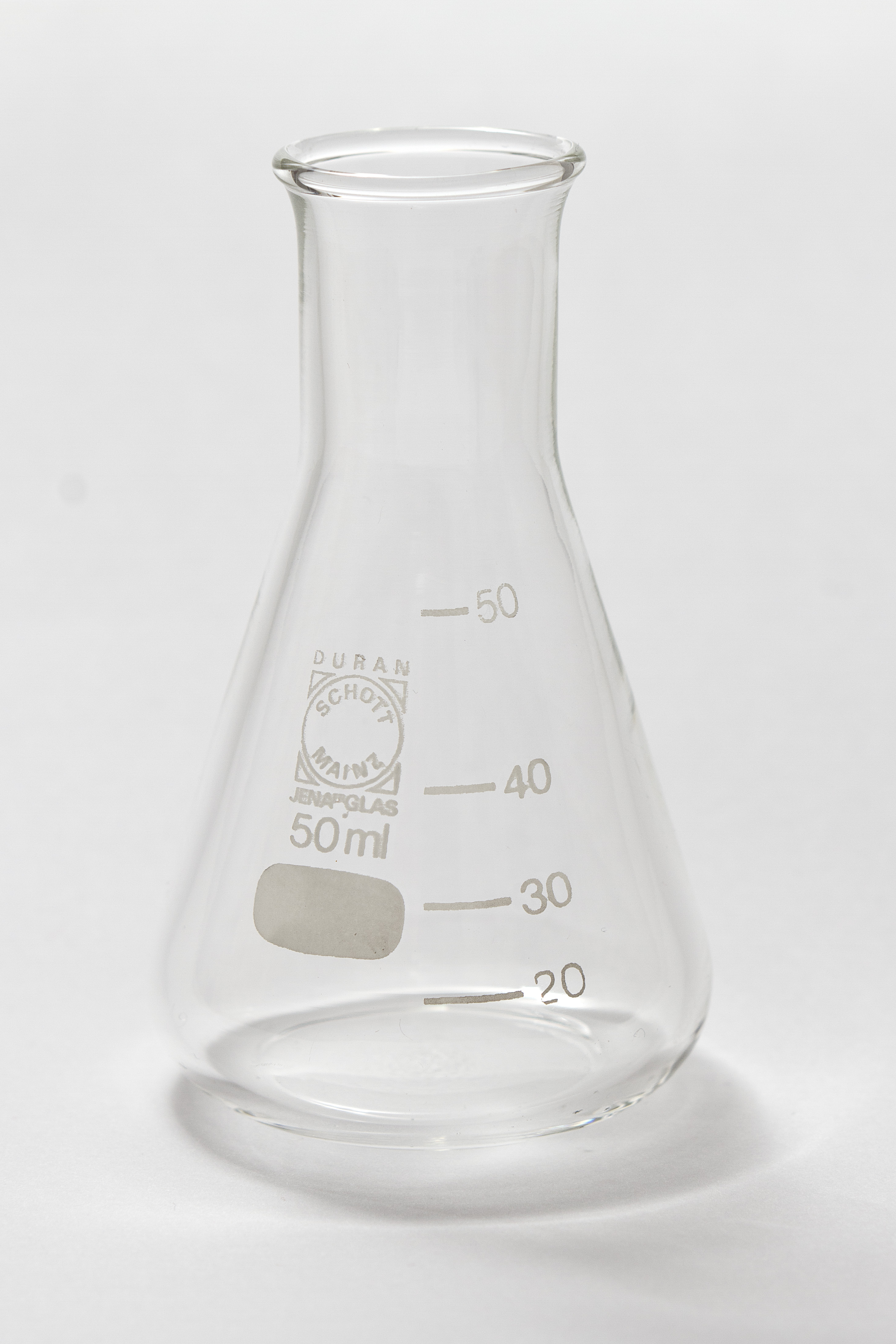 Duran erlenmeyer flask 50ml